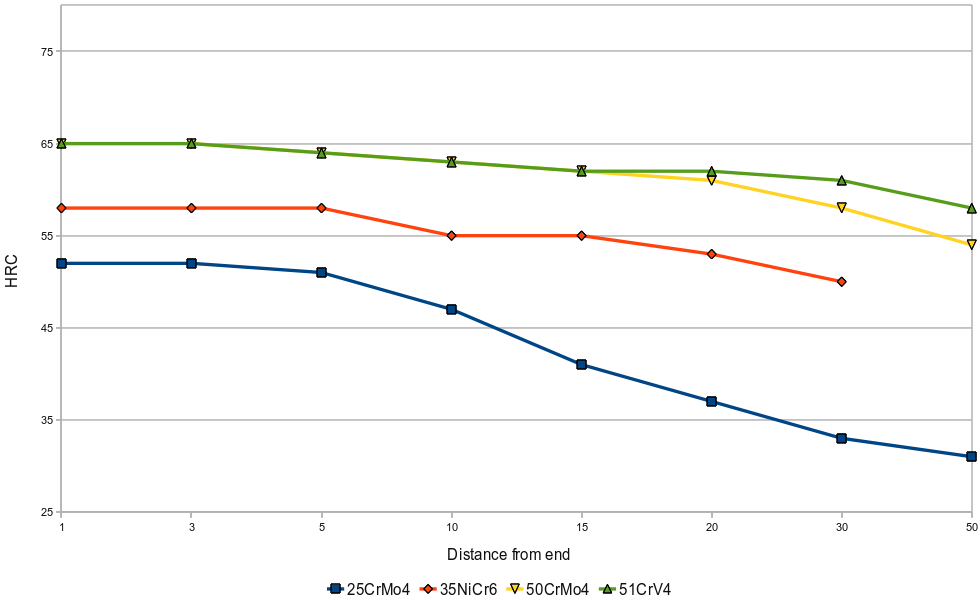 The results of 4 different hardenability tests.